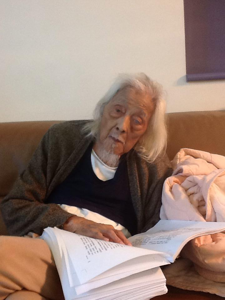 Su Beng